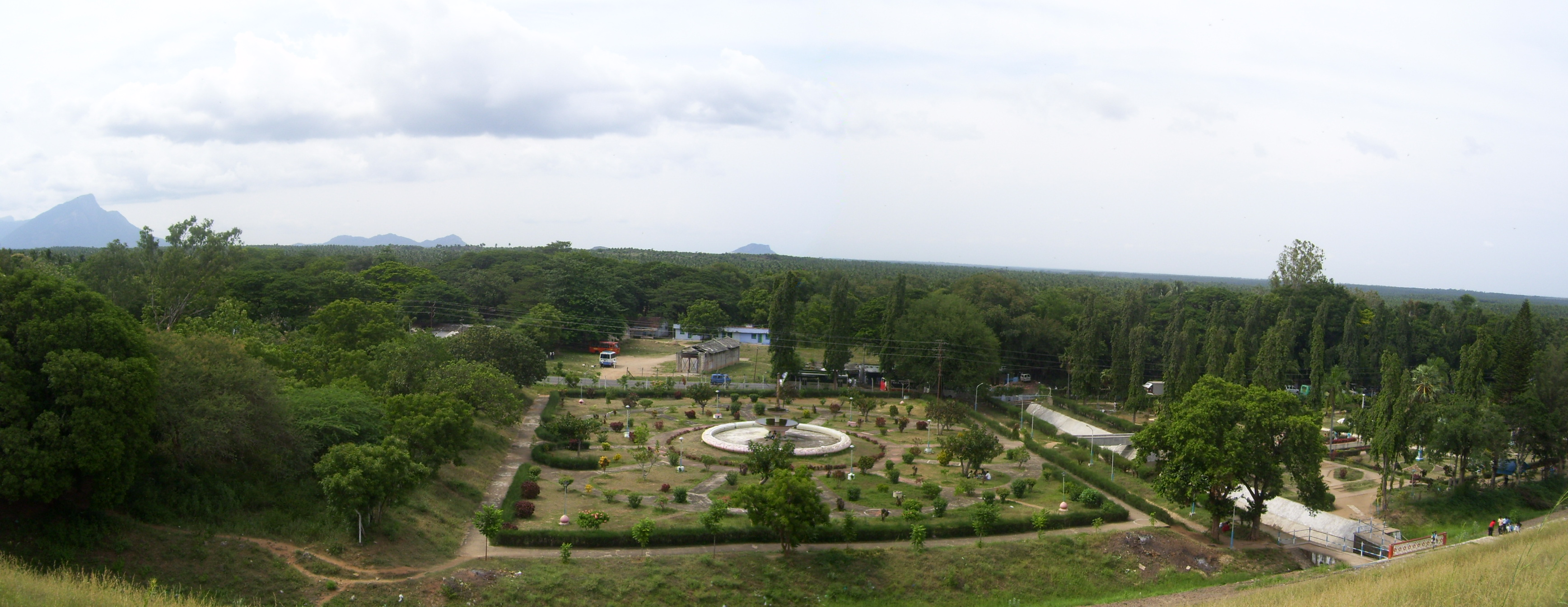 A panoramic view of the Aliyar Dam Garden. Taken from the top of the Dam.